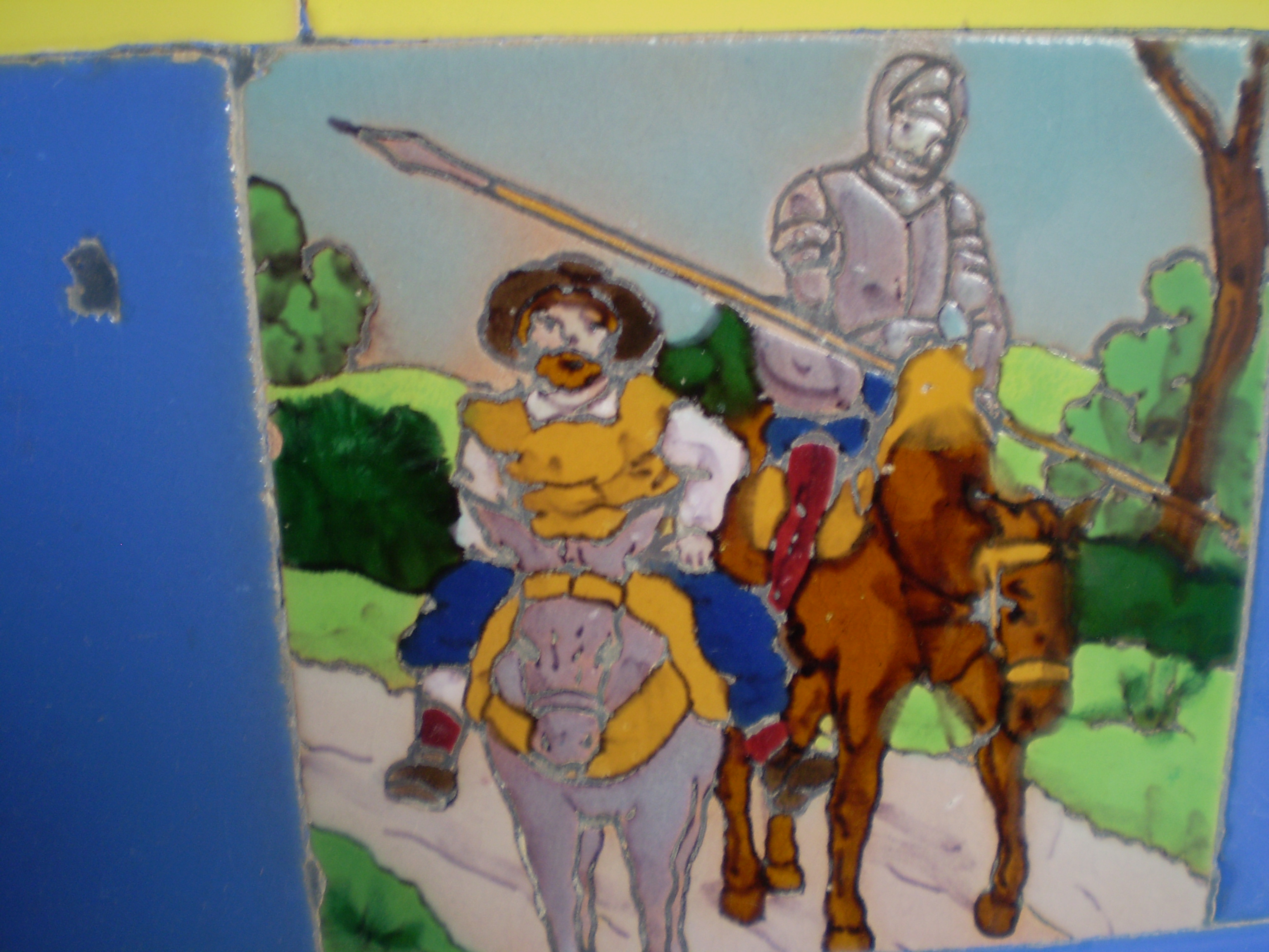 azulejos